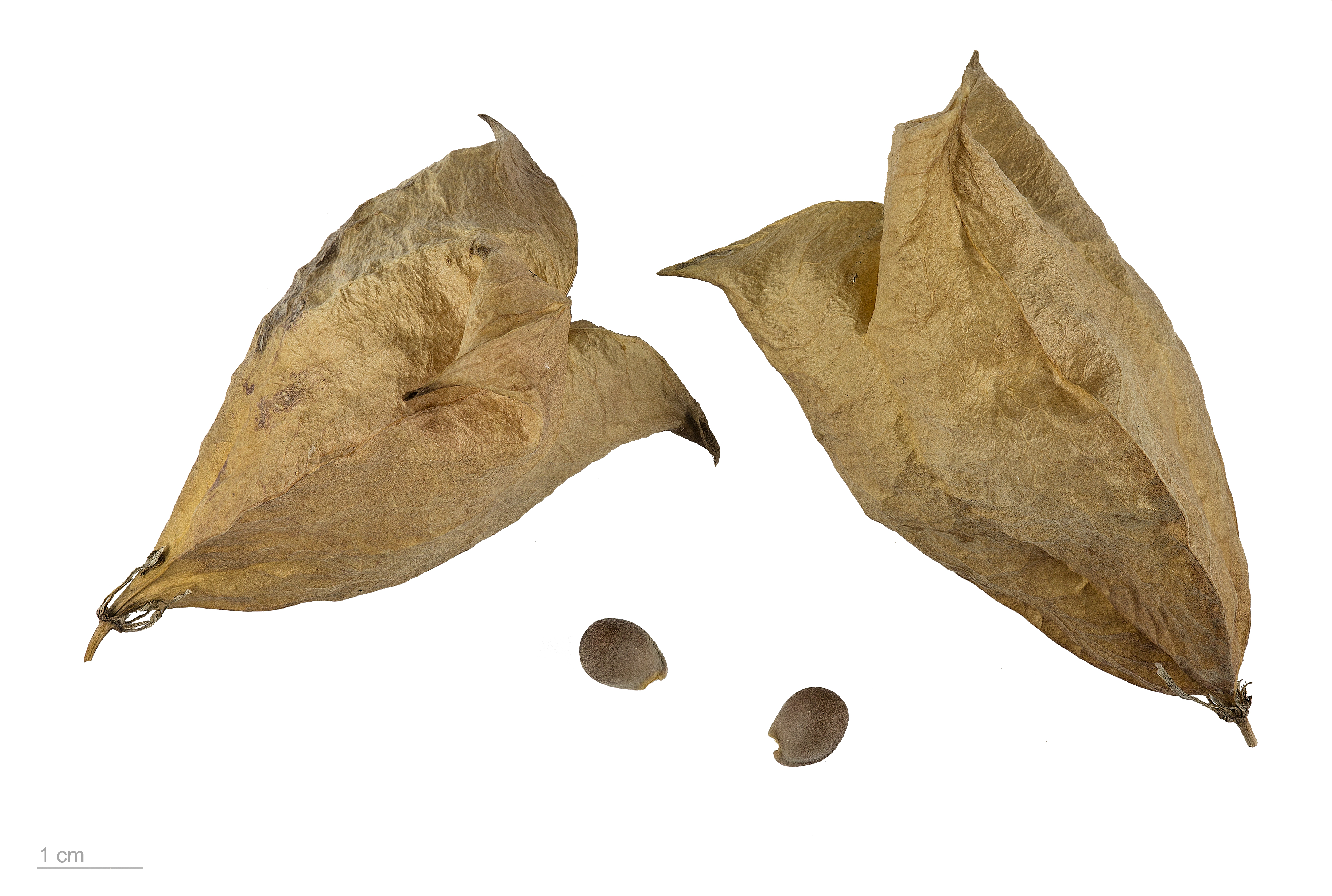 Colchis bladdernut , fruits and seeds